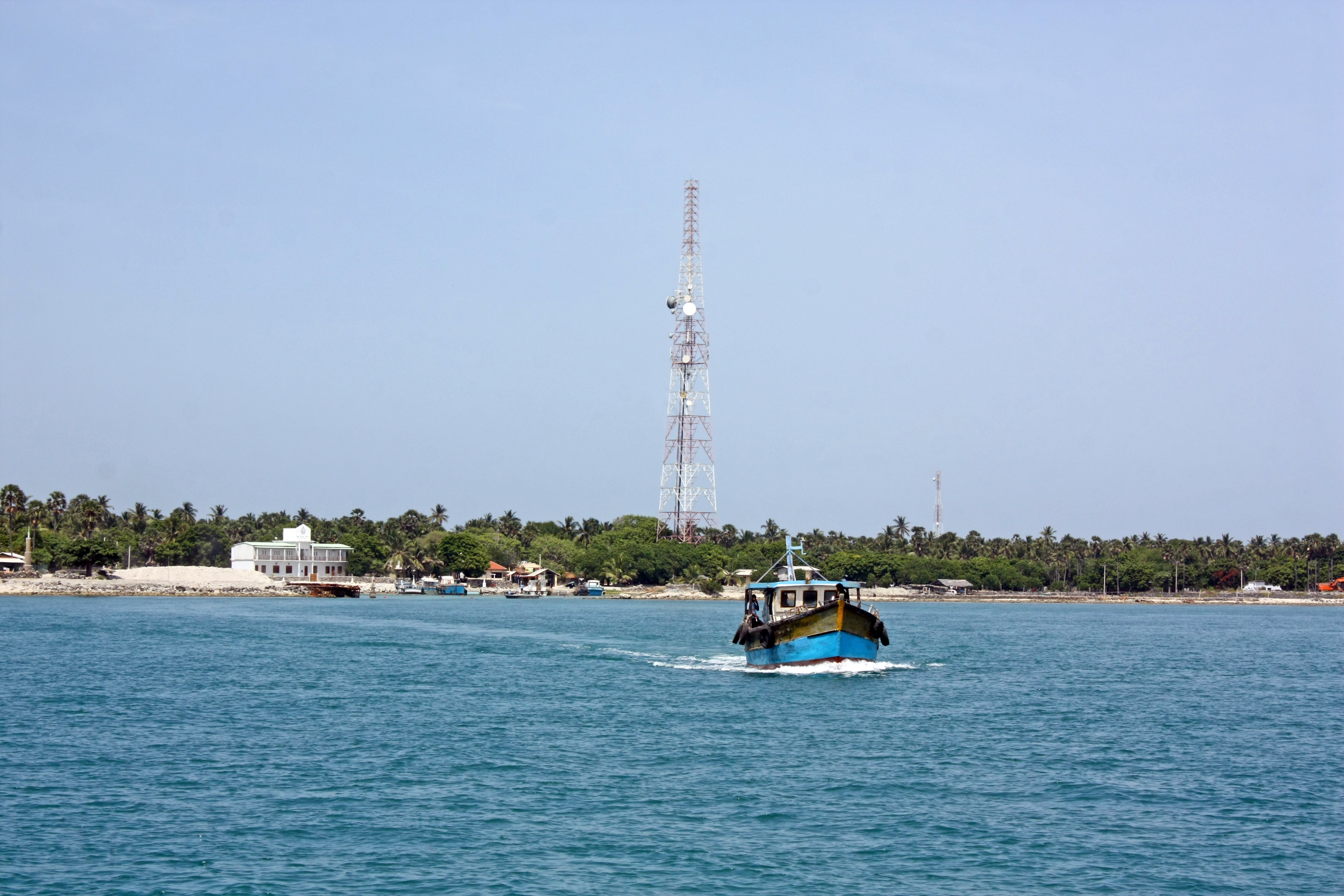 Delft jetty or Nedunthivu jetty in background